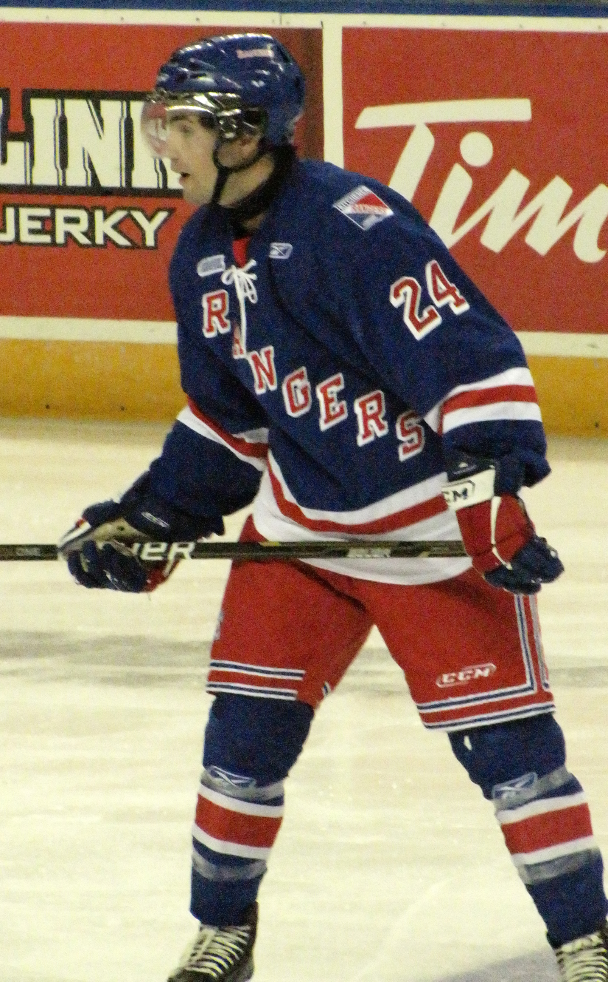 Ryan Murphy of the Kitchener Rangers in preseason action